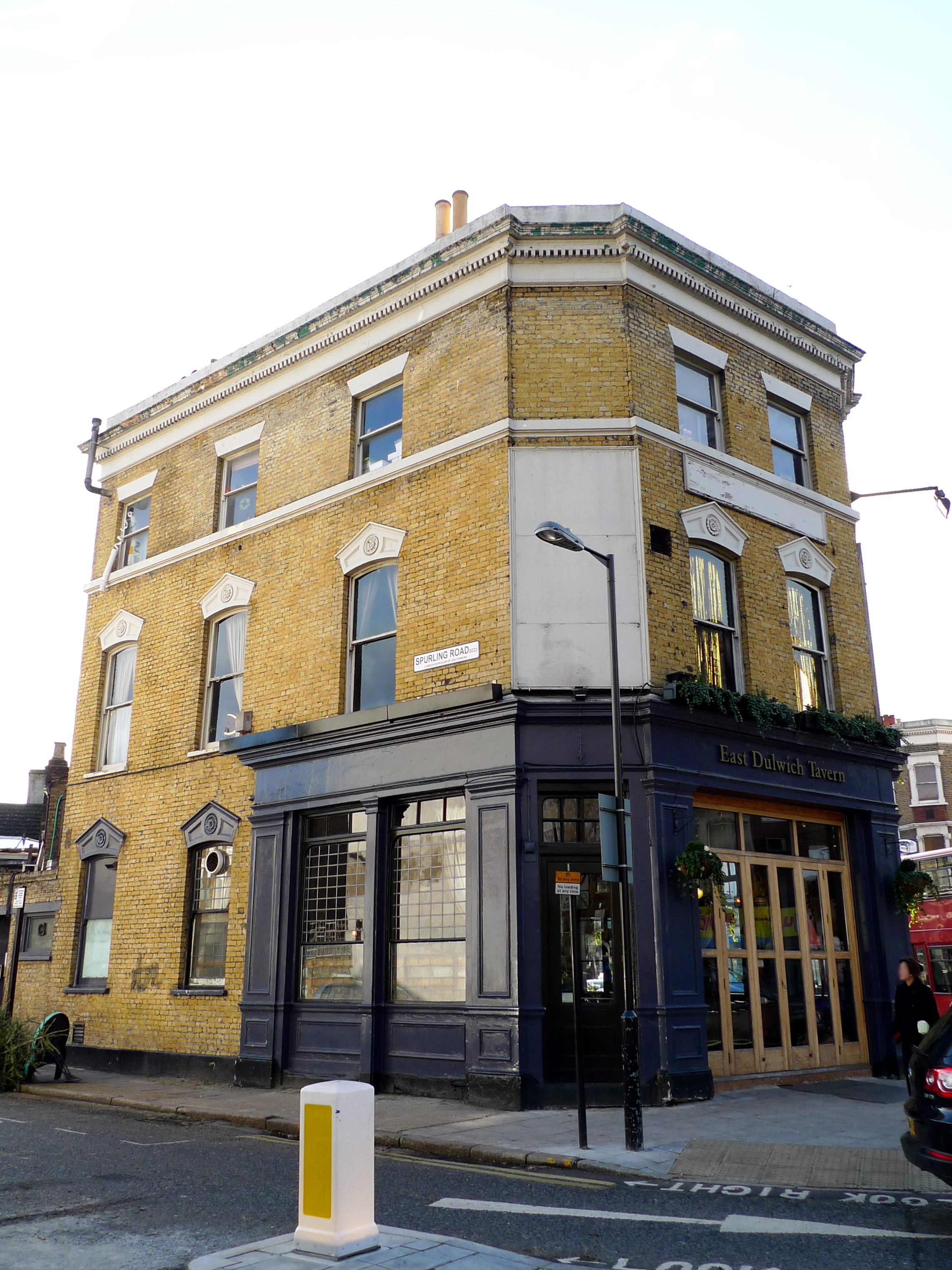 A pub on the corner of Lordship Lane, with a dining room upstairs called "The Lodge" (and members-only, it appears). It's alright, but not amazing. Address: 1 Lordship Lane. Owner: Antic (website and Lodge website). Links: Randomness Guide to London Fancyapint Beer in the Evening